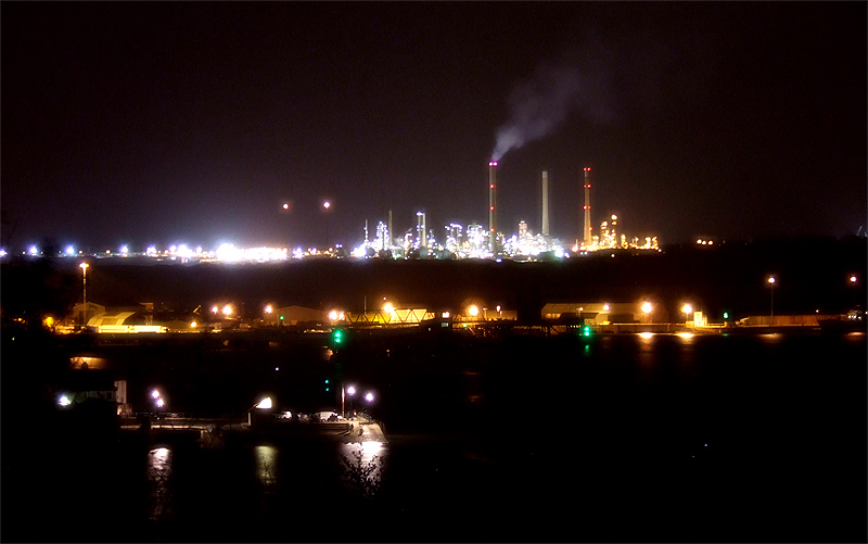 View of Pembroke Dock in Wales with the Chevron oil refinery in the distance. October 2006. Category:Images of Pembrokeshire